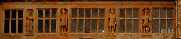 Montacute House, Somerset, c.1598. Upper eastern facade showing sculptures of some of the Nine Worthies in niches.